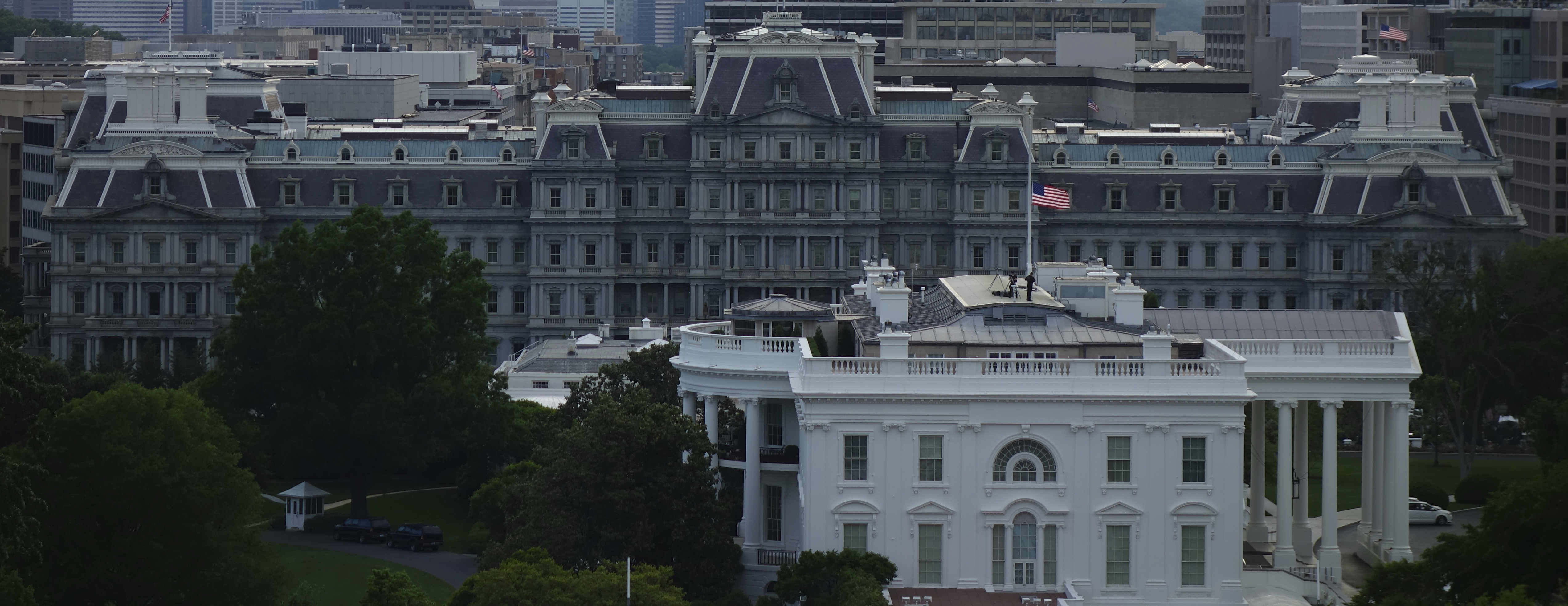 Executive Office Building, Pennsylvania Ave. and 17th St., NW Monumental Core